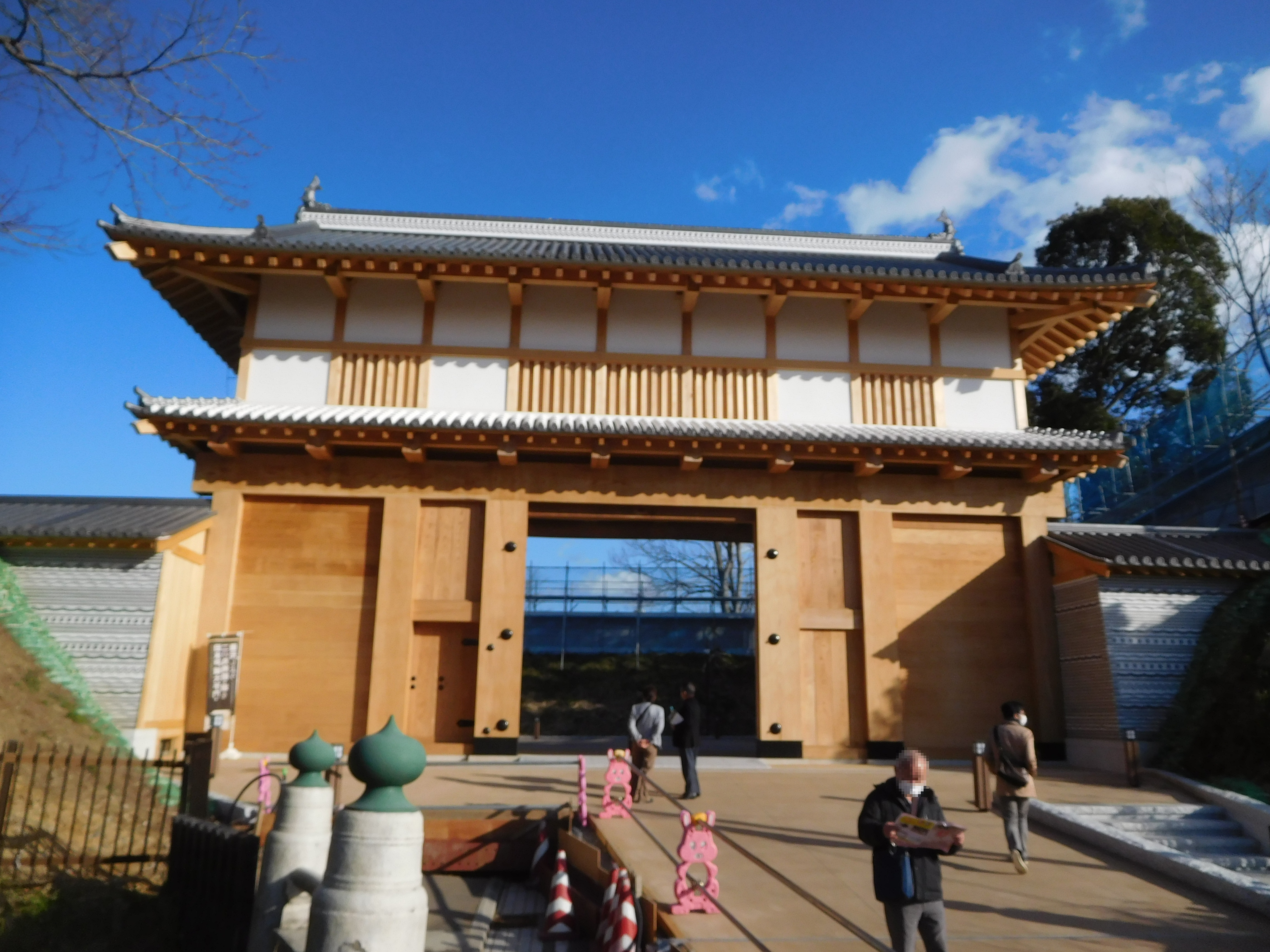 It is the ote gate of Mito castle in Mito, Ibaraki, Japan. It was rebuilt in 2020.